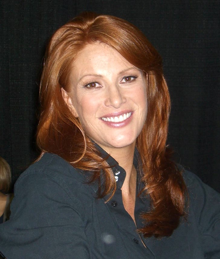 Model/actress Angie Everhart at the Big Apple Convention in Manhattan. Photographed by Luigi Novi. This photo may only be used if the photographer is properly credited. (See Licensing information below.)